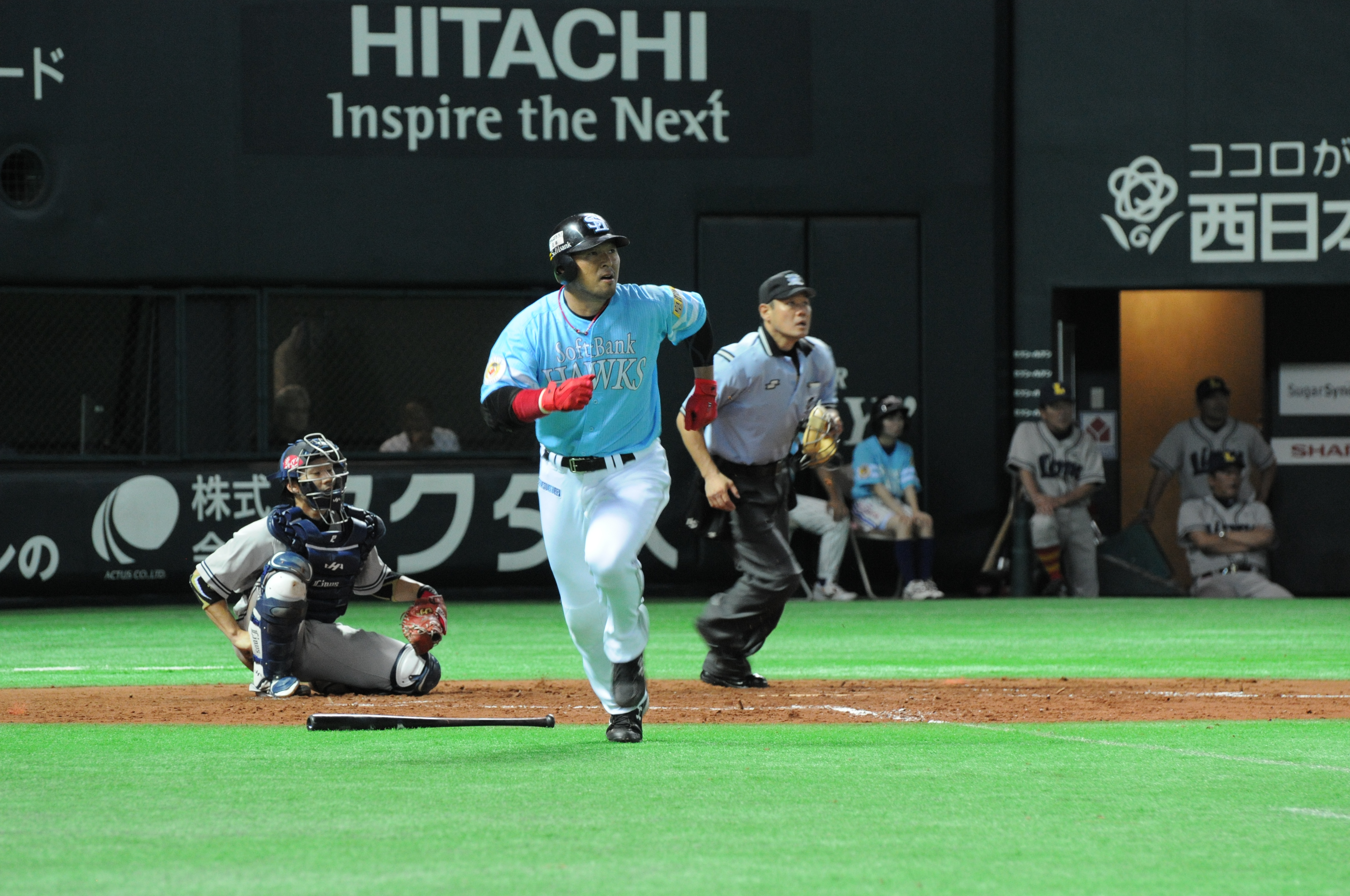 Nobuhiko Matsunaka, outfielder of the Fukuoka SoftBank Hawks, after he hit his 9th home run of the season at Fukuoka Dome.